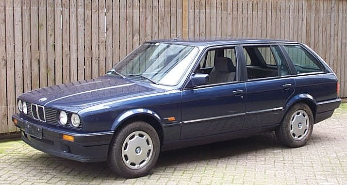 BMW E30 touring 1992